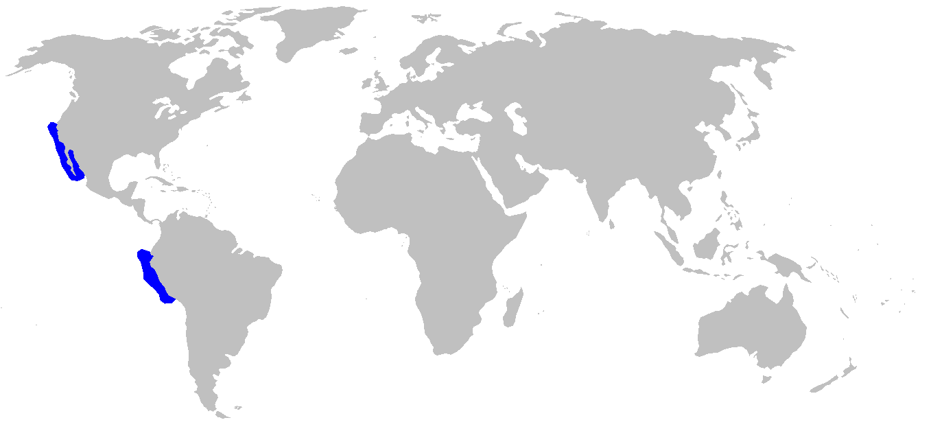 Distribution map for Mustelus henlei